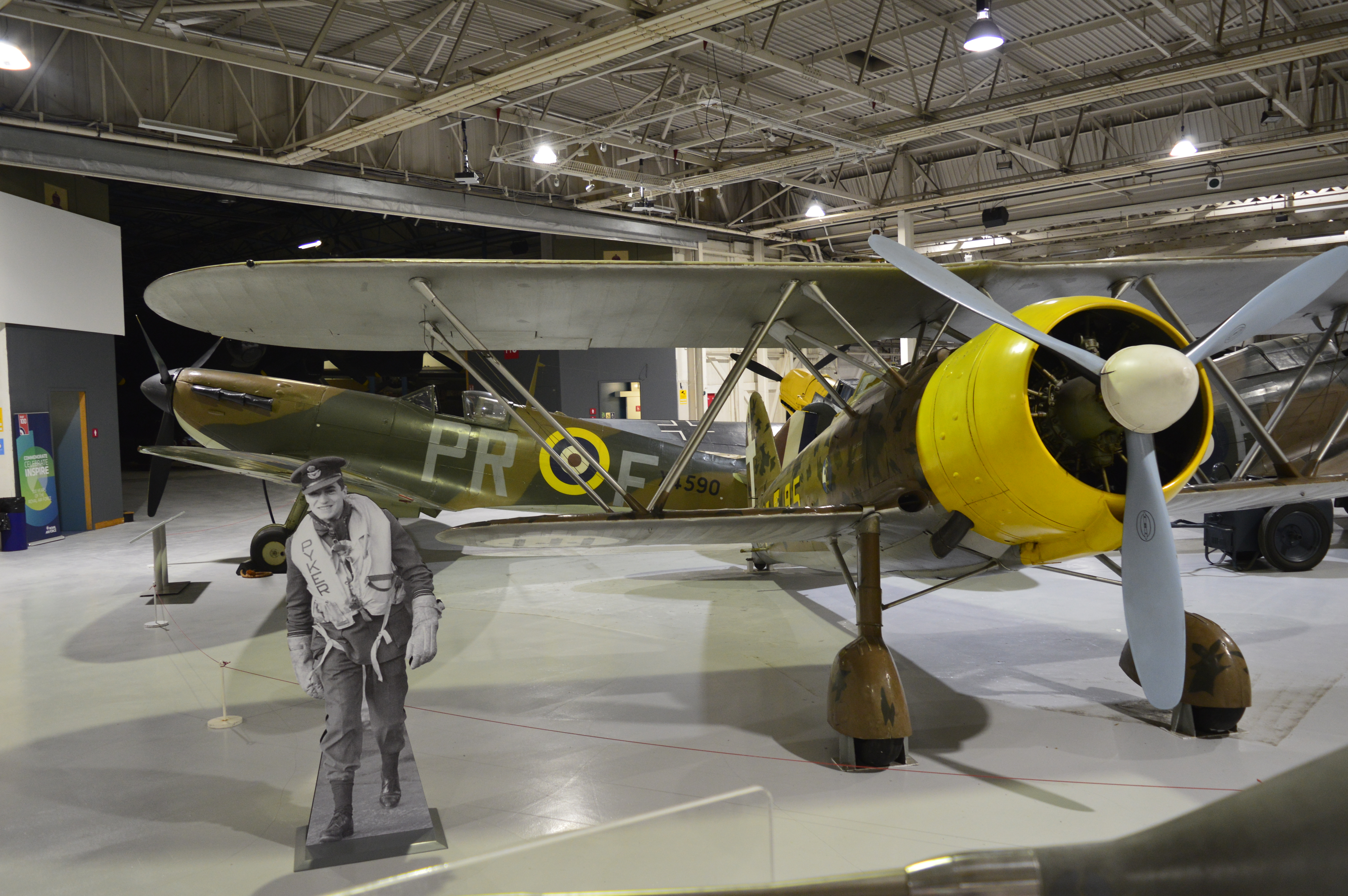 Fiat CR.42 in the Battle of Britain exhibition at the RAF Museum with a cut out figure of Jean 'Pyker' Offenberg, Belgian ace of the RAF